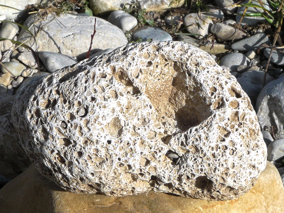 Rauhwacke - Raibl beds, bedload of river Traun (Upper-Bavaria), dimension 175x100x90mm